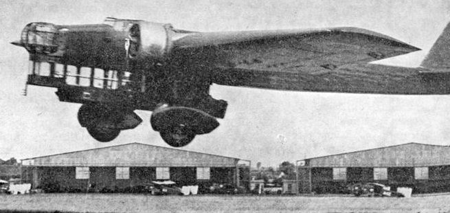 Amiot 143 photo from L'Aerophile May 1934